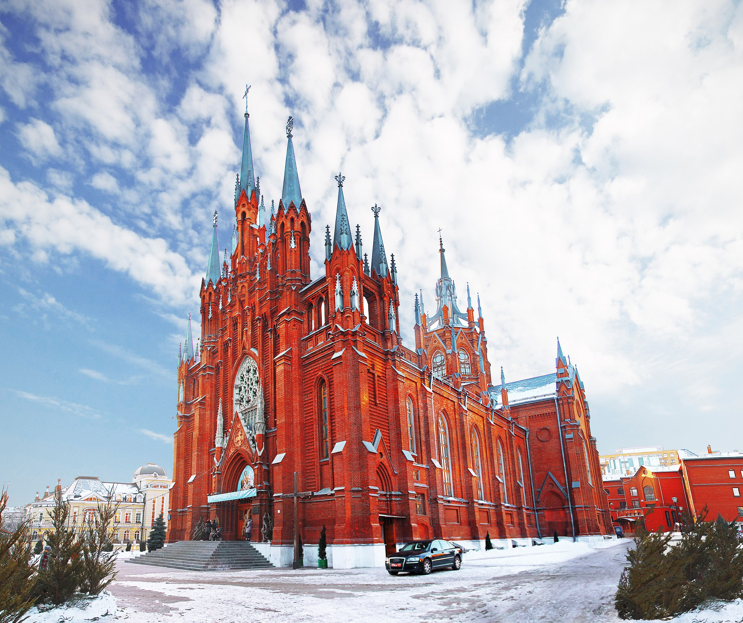 Moscow Catholic Cathedral, Neo-Gothic style